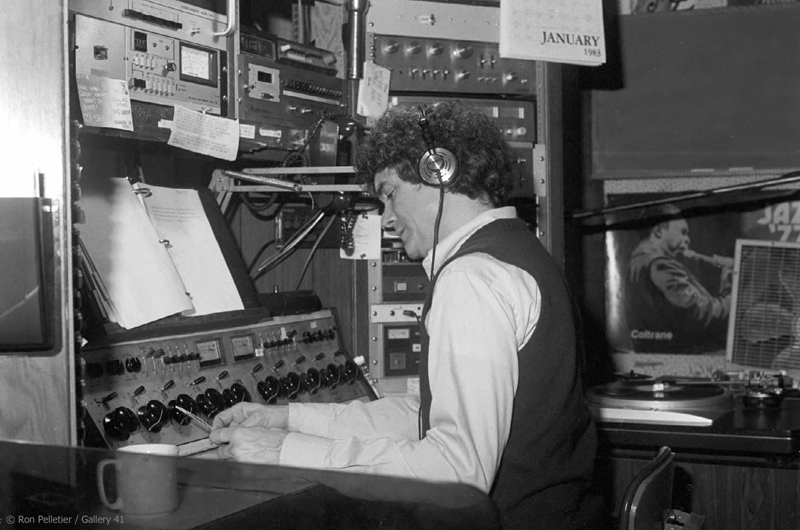 Bud Spangler On The Air at KJAZ January 1983